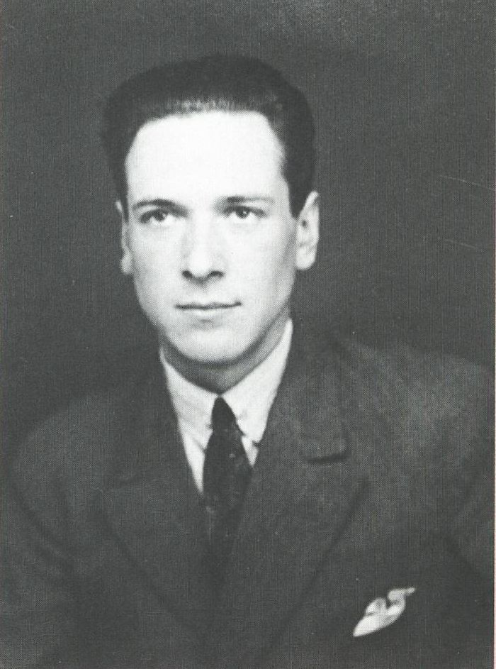 Reino Palmroth finnish songwriter